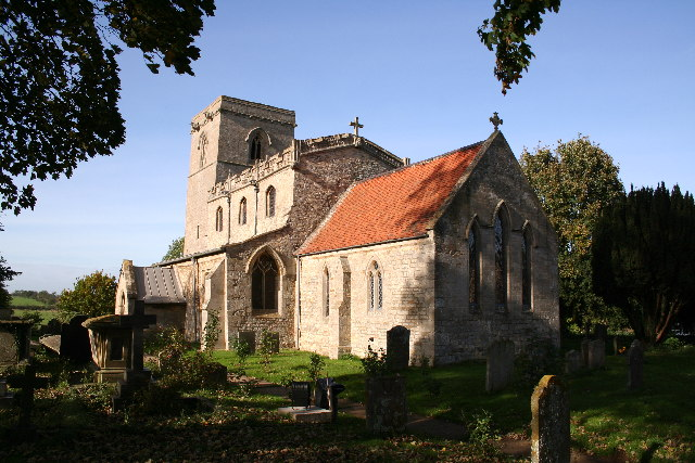 St.Nicholas' church, Normanton, Lincs. With splendid views over the Lincolnshire countryside, St.Nicholas' has good Transitional and Early English arcades with an interesting range of capitals, a Perpendicular clerestory and a Victorian chancel in the Early English style. A delightful church, now un-used, but well preserved and lovingly cared for by the Redundant Churches Fund.